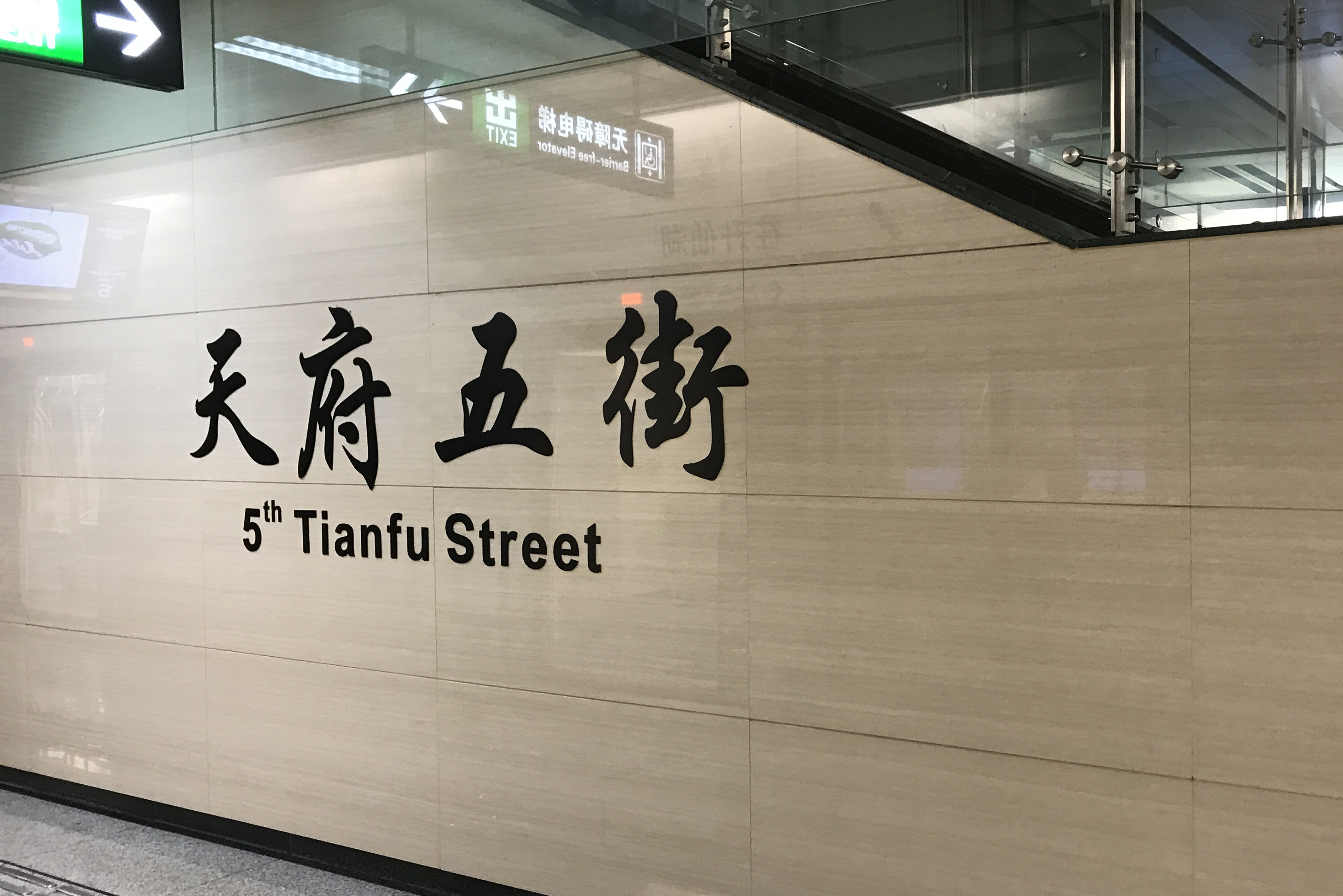 Platform of 5th Tianfu Street Station, Chengdu Metro